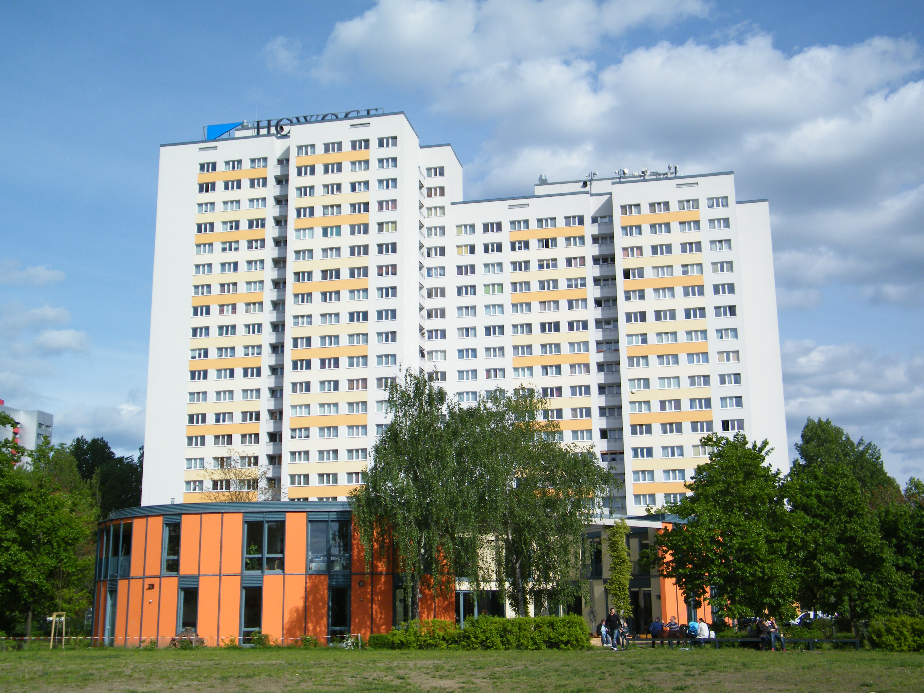 Berlin-Lichtenberg, Frankfurter Allee Süd, Schulze-Boysen-Str. 35/37, 38